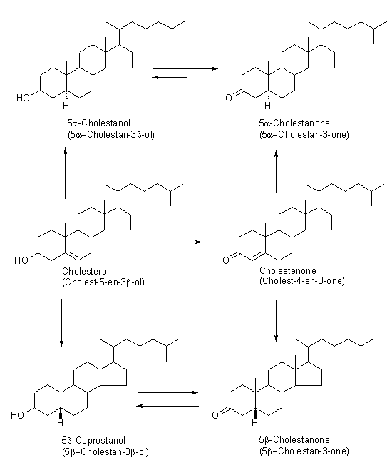 Figure re-drawn from work published by Grimalt et al. (1990) EST, 24:357- showing the proposed synthesis route for 5β-coprostanol.